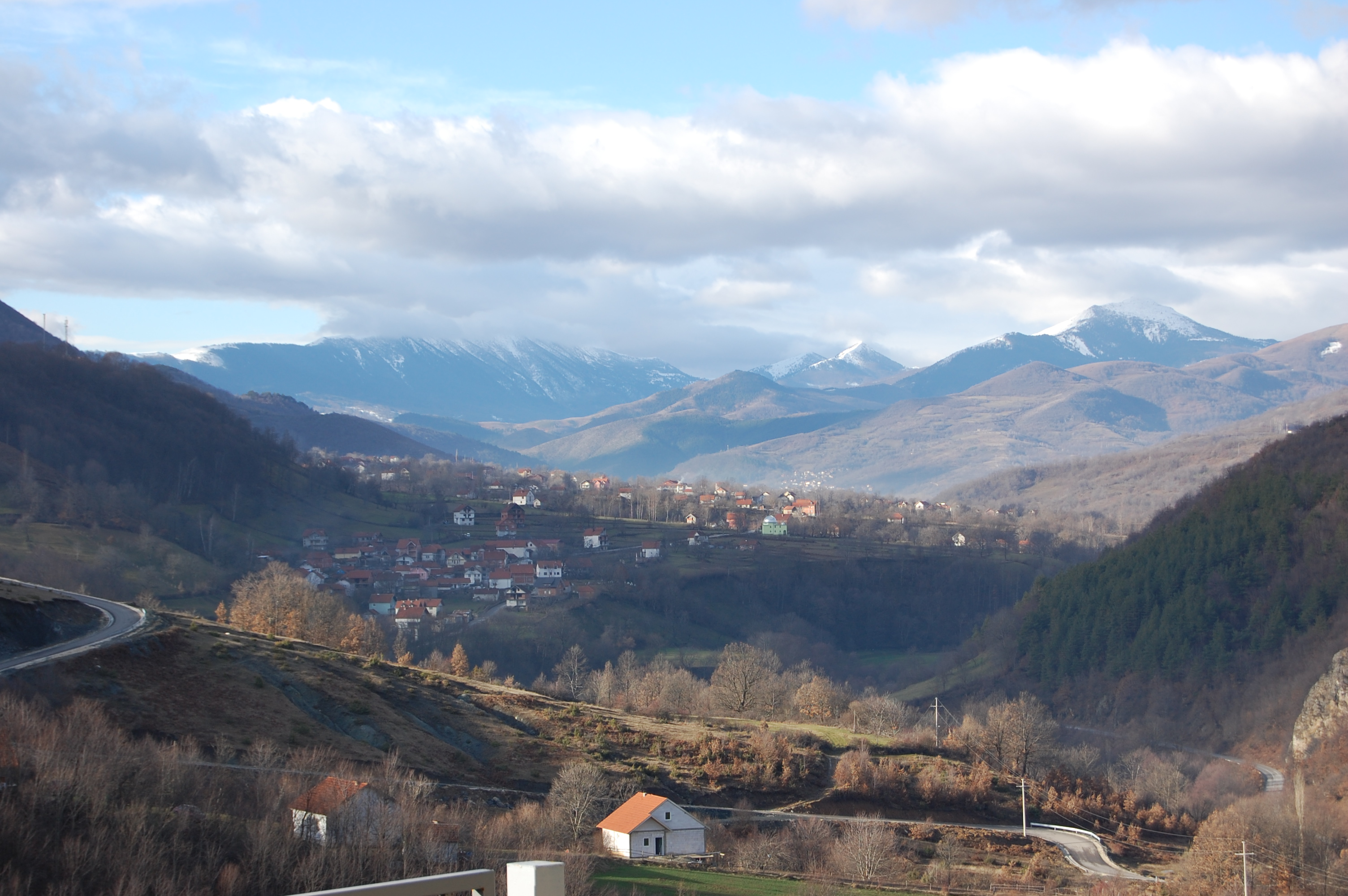 Pamja e komunes se Shterpces